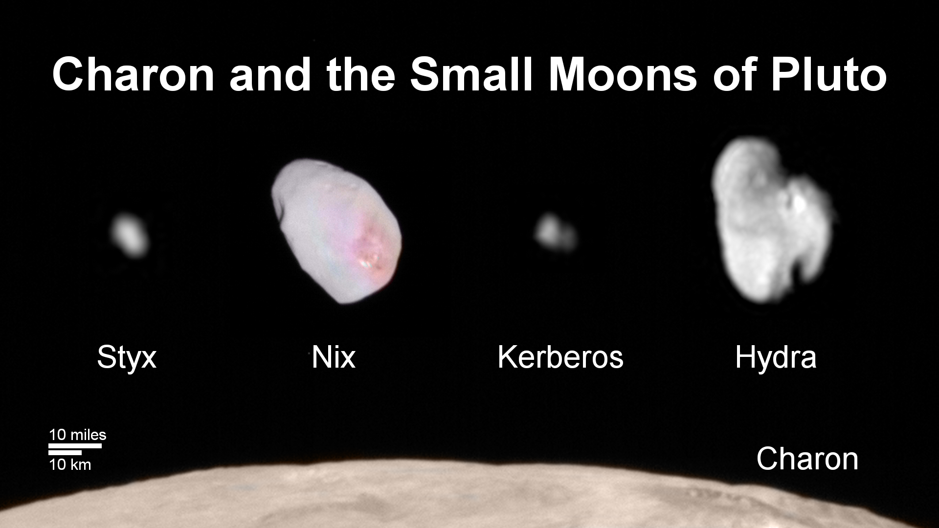 Family Portrait of Pluto’s Moons: This composite image shows a sliver of Pluto’s large moon, Charon, and all four of Pluto’s small moons, as resolved by the Long Range Reconnaissance Imager (LORRI) on the New Horizons spacecraft. All the moons are displayed with a common intensity stretch and spatial scale (see scale bar). Charon is by far the largest of Pluto’s moons, with a diameter of 751 miles (1,212 kilometers). Nix and Hydra have comparable sizes, approximately 25 miles (40 kilometers) across in their longest dimension above. Kerberos and Styx are much smaller and have comparable sizes, roughly 6-7 miles (10-12 kilometers) across in their longest dimension. All four small moons have highly elongated shapes, a characteristic thought to be typical of small bodies in the Kuiper Belt.